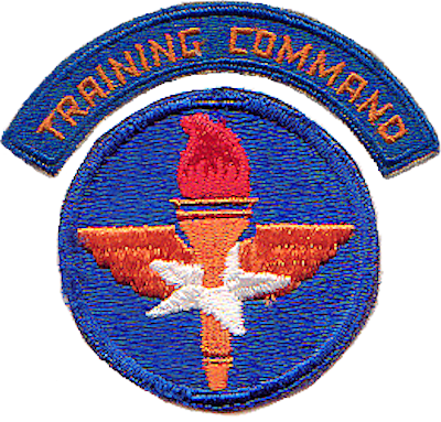 Emblem of the United States Army Air Forces Training Command